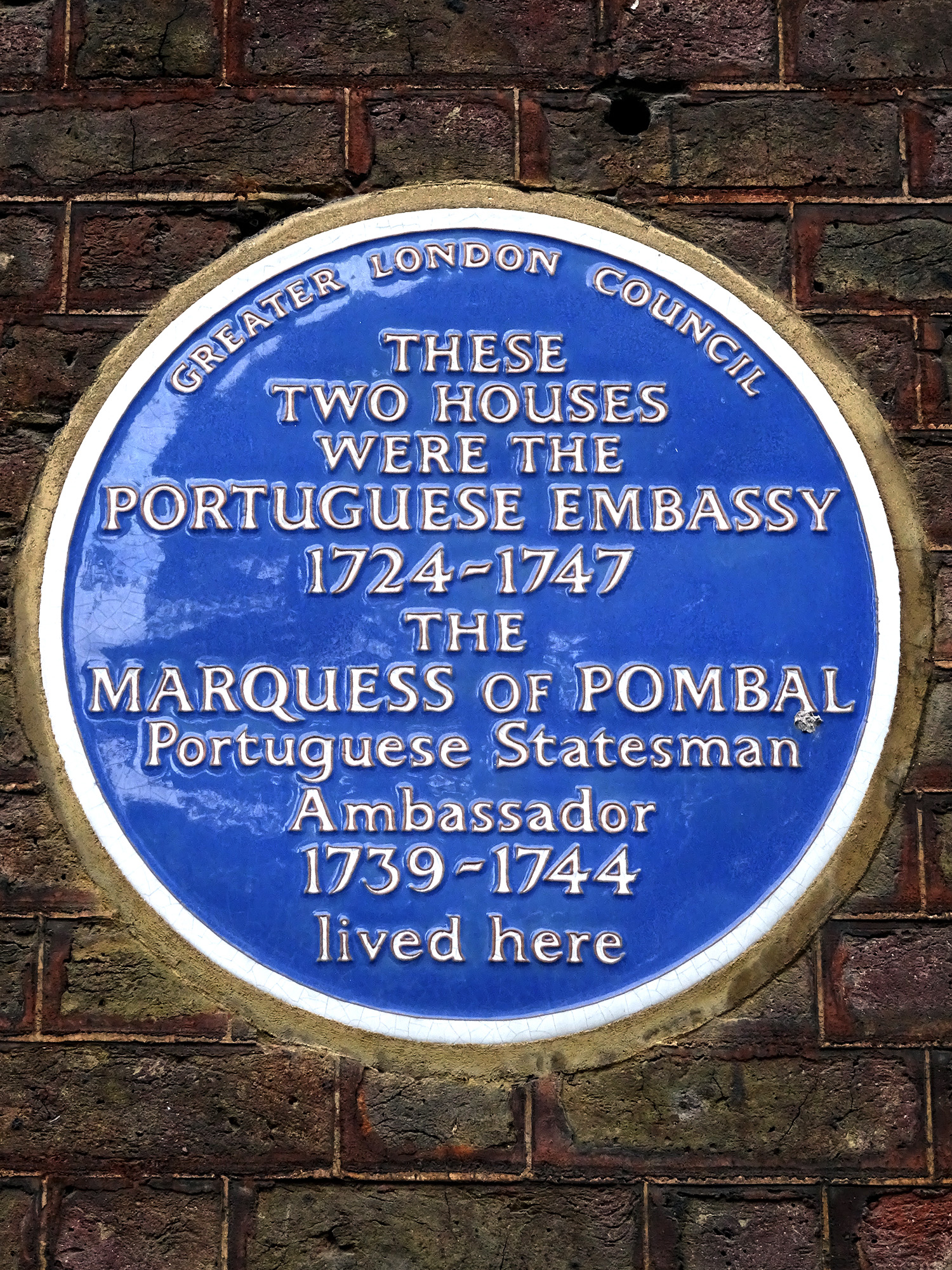 Blue plaque erected in 1980 by Greater London Council at 23-24 Golden Square, Soho, London W1F 9JP, City of Westminster